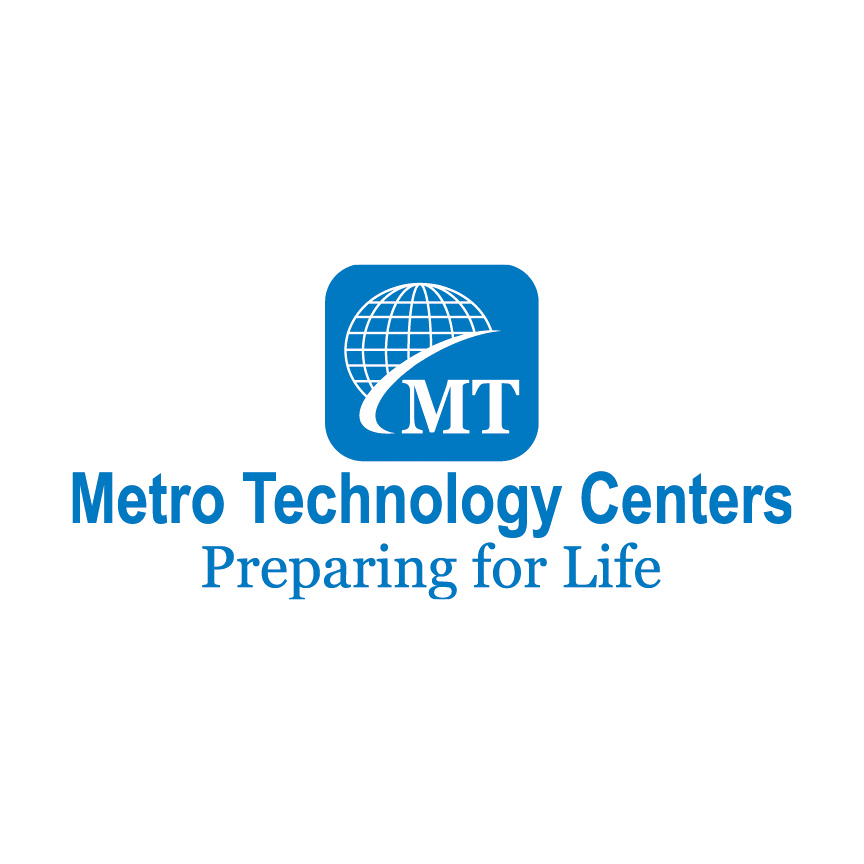 Metro Technology Centers Logo Preparing for Life